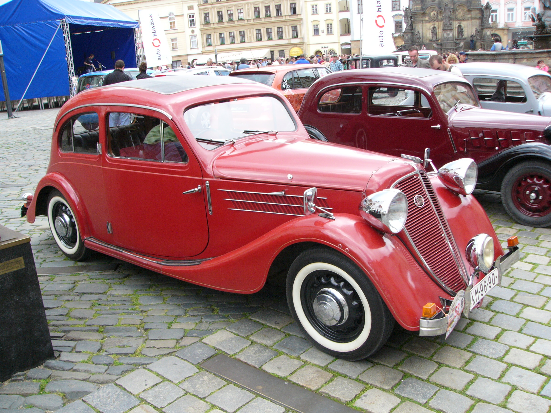 Zbrojovka Brno Z5 Express. This certain car was manufactured in 1936.